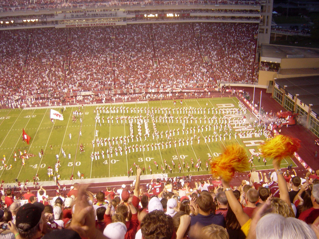 The Arkansas Razorbacks take the field at Donald W. Reynolds Razorback Stadium. Photo taken by Bobak Ha'Eri. September 2, 2006. Please observe license and properly cite in use outside Wikipedia.